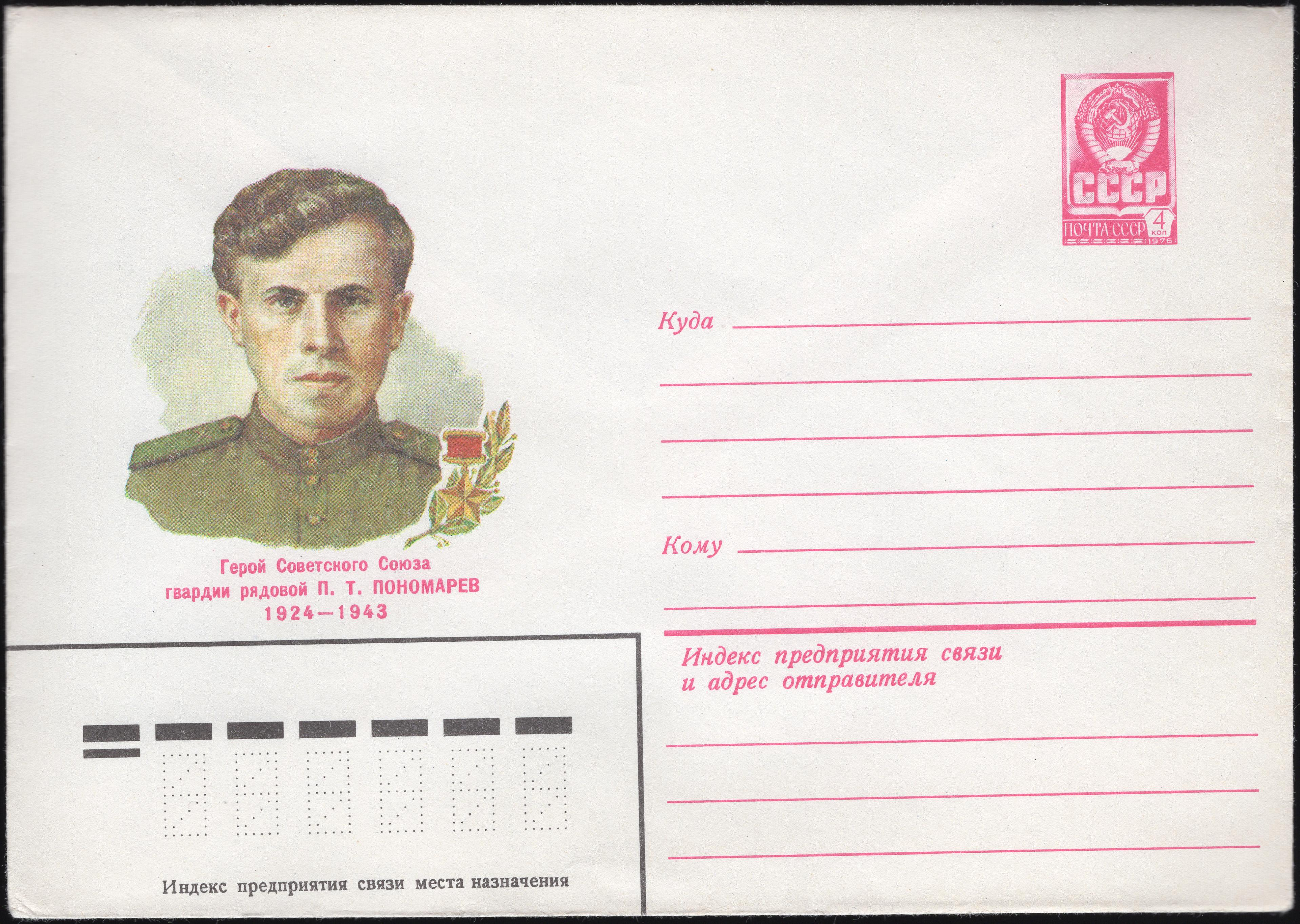 Hero of the Soviet Union Guards Private Pyotr Ponomaryov. 1924-1943. Series: Heroes of the Soviet Union. Artist Kravchuk G.